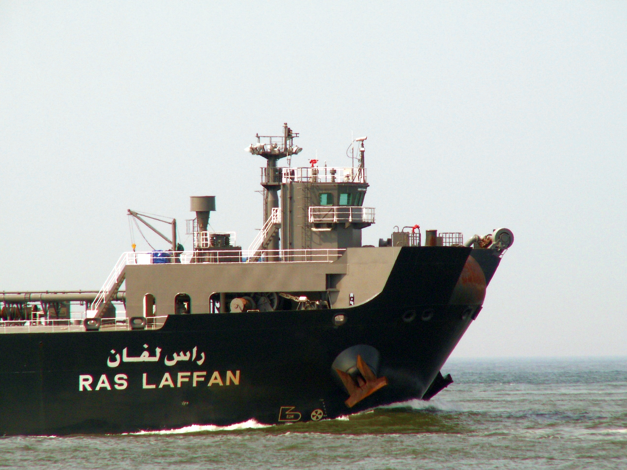 Ras Laffan p4 04-Jul-2006.